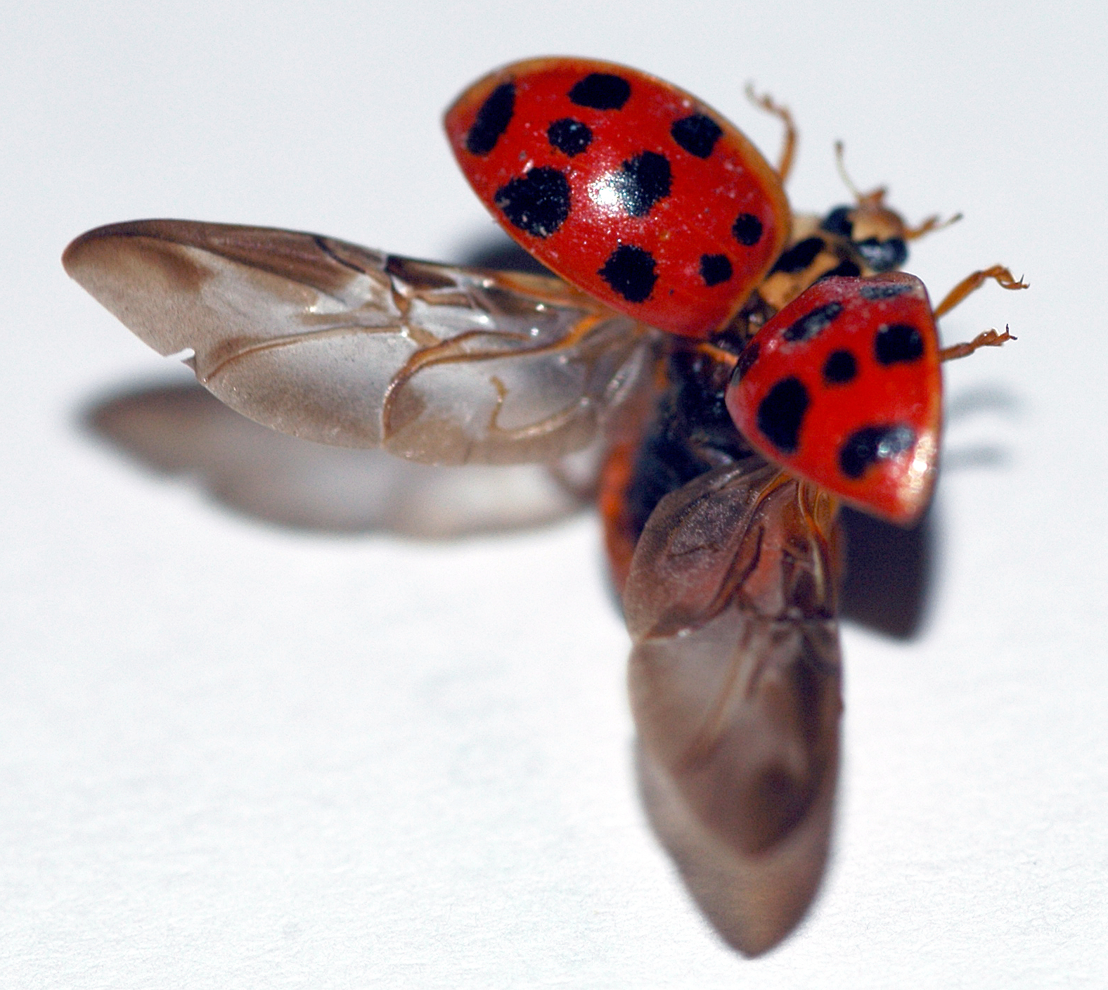 Lady beetle (unidentified Coccinellidae species) about to take flight